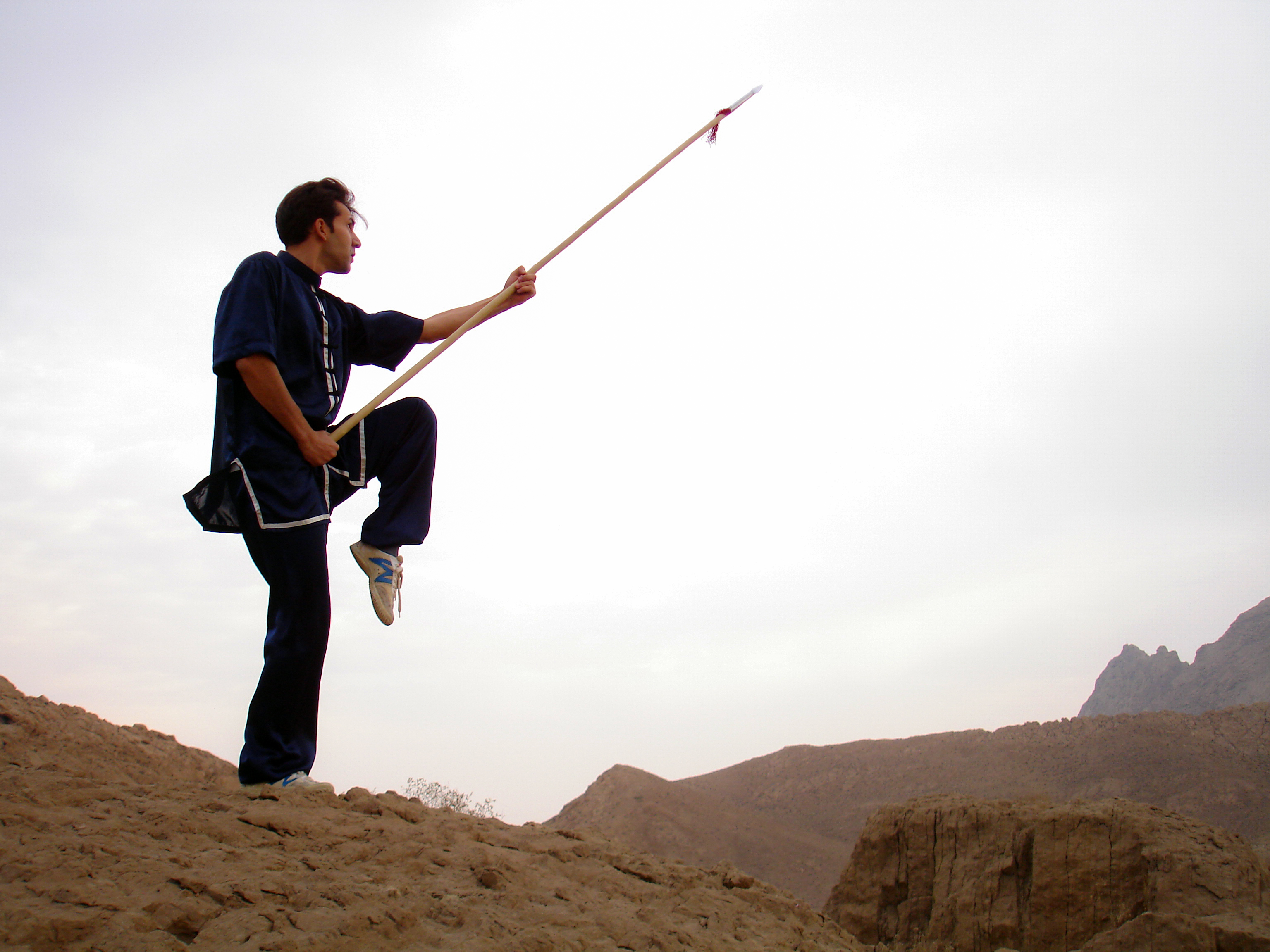 Kung fu/Kungfu or Gung fu/Gongfu (/ˌkʌŋˈfuː/ (About this sound listen) or /ˌkʊŋˈfuː/; 功夫, Pinyin: gōngfu) is a Chinese term referring to any study, learning, or practice that requires patience, energy, and time to complete. አማርኛ: ኩንግ-ፉ (ቻይንኛ፦ ጎንግፉ) በቻይና ሀገር የሚያስተምሩ የትግል (ቡጢ) ሙያ ማለት ነው። በትክክለኛ ቻይንኛ ይህ የቡቅሻ ትግል ዉሹ ሲባል፣ የ«ኩንግፉ» ትርጉም በትክክል የማናቸውም አይነት ሙያ ወይም መልመጃ ነው። ለምሳሌ፣ «ኮንግ-ፉ ቻ» ማለት በሻይ (ቻ) ሥነ ሥርዓት ያለው ሙያ ማለት ነው። ከ1960ዎቹ ጀምሮ ግን የቻይና ቡቅሻ በተለይ በእንግሊዝኛ ኩንግ-ፉ ተብሏል።